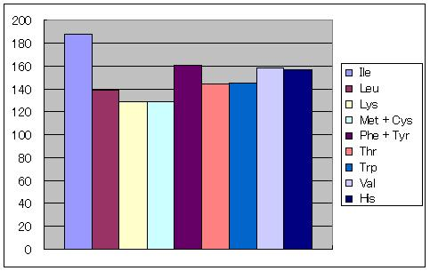 Amino acid score of soybean